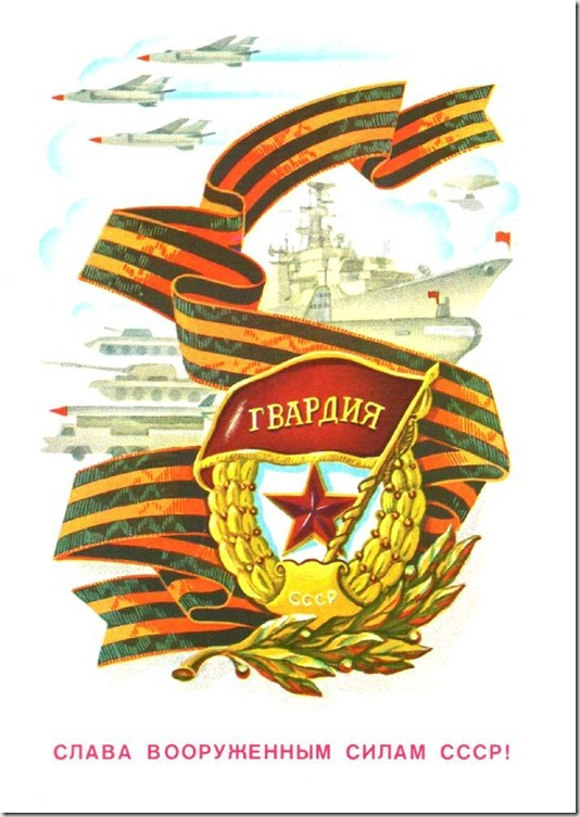 Postal card of the USSR "Glory to Armed Forces of the USSR". 1983, art by A. Pchyolkin, A. Schedrin